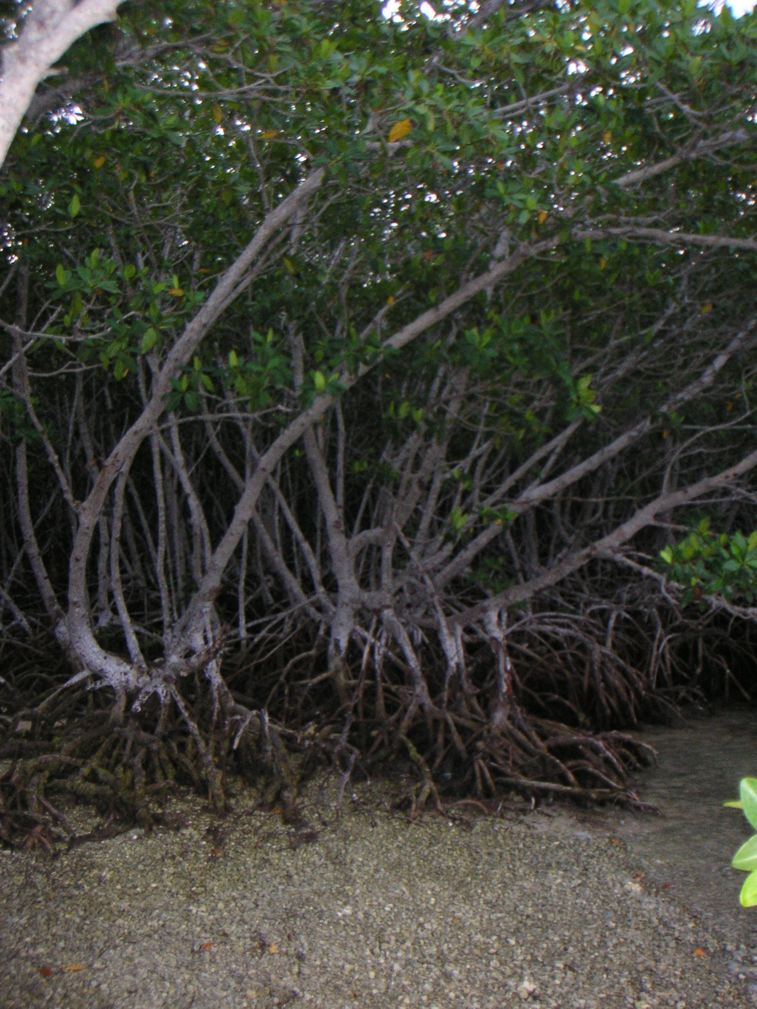 Red Mangrove trees (Rhizophora mangle, Rhizophoraceae), Florida Keys